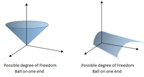 Figure 1.2 Degree of Freedom of Balls